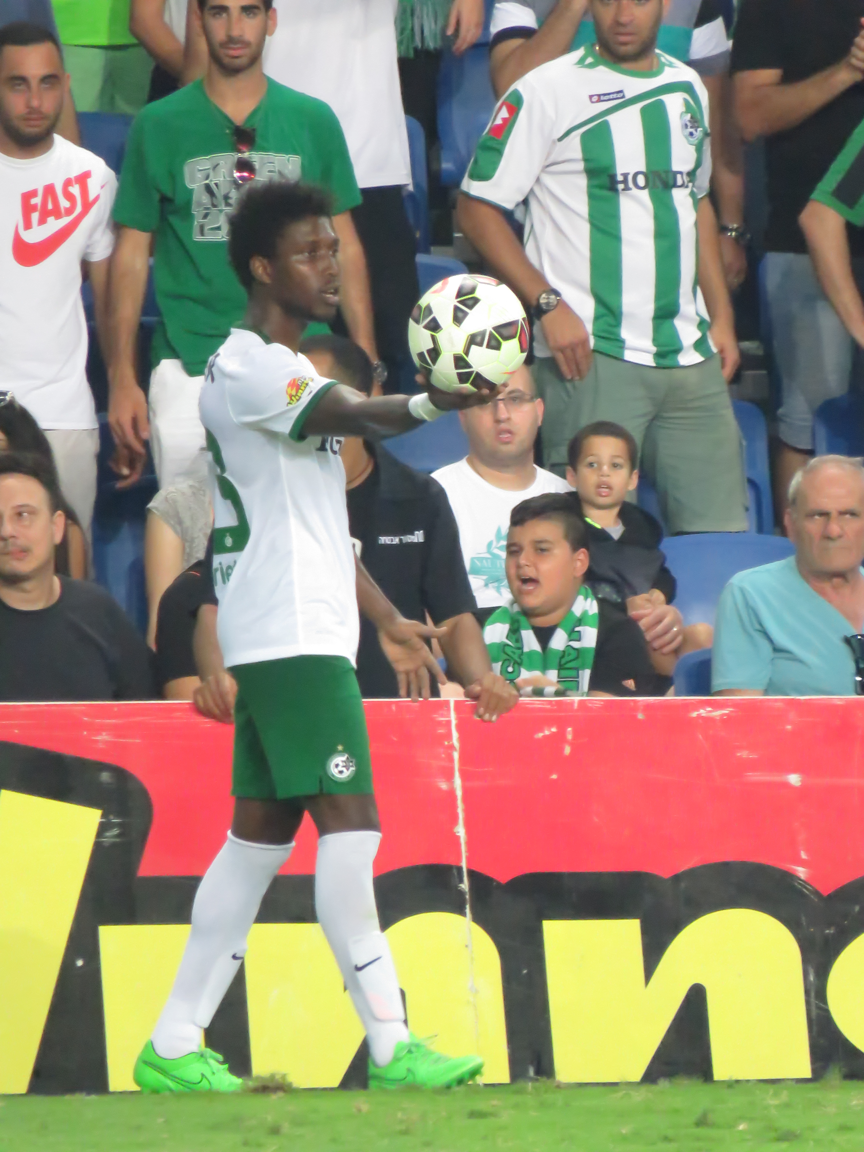 Hapoel Ra'anana vs. Maccabi Haifa F.C., 3 October, 2015